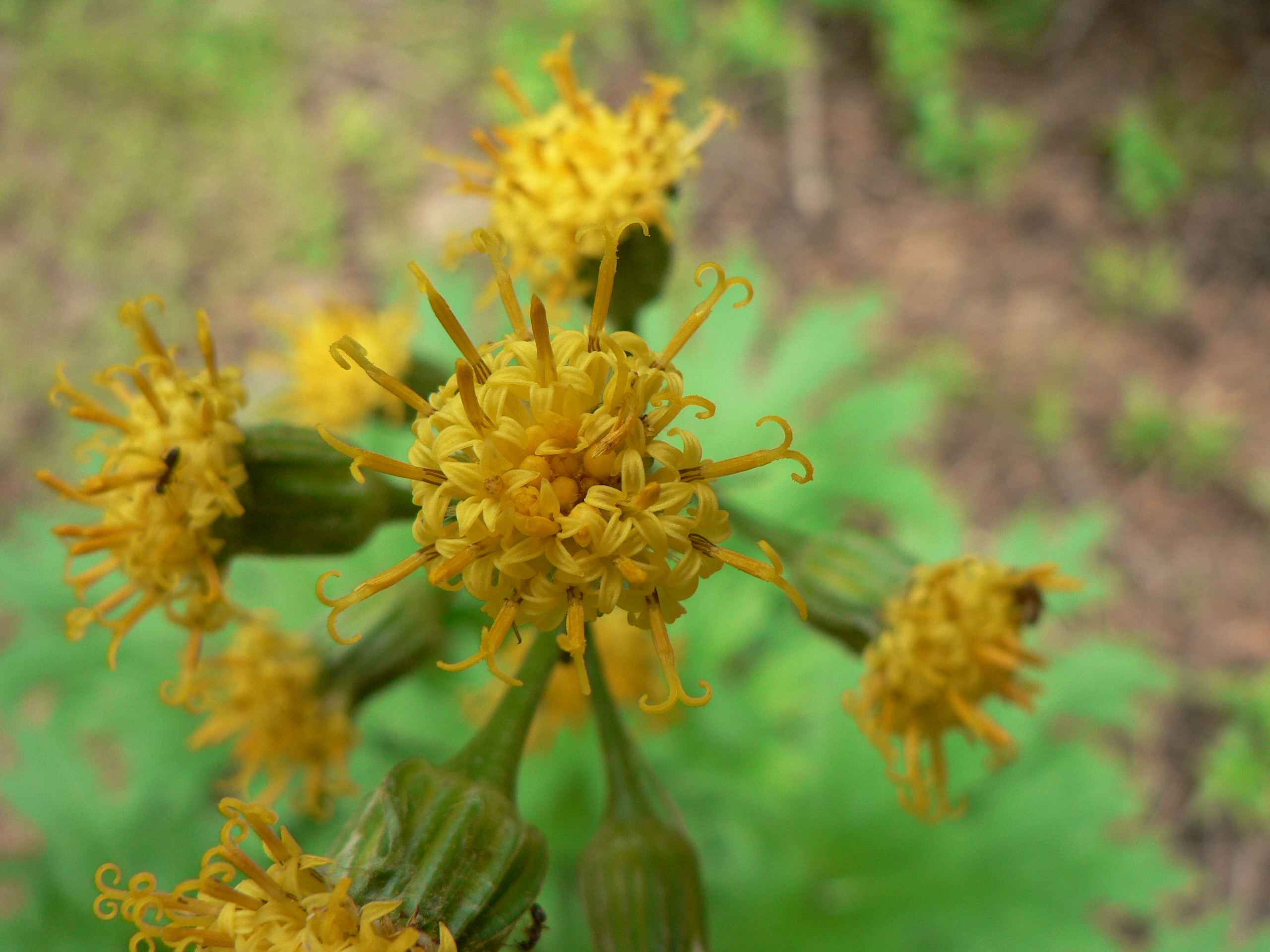 Silvercrown